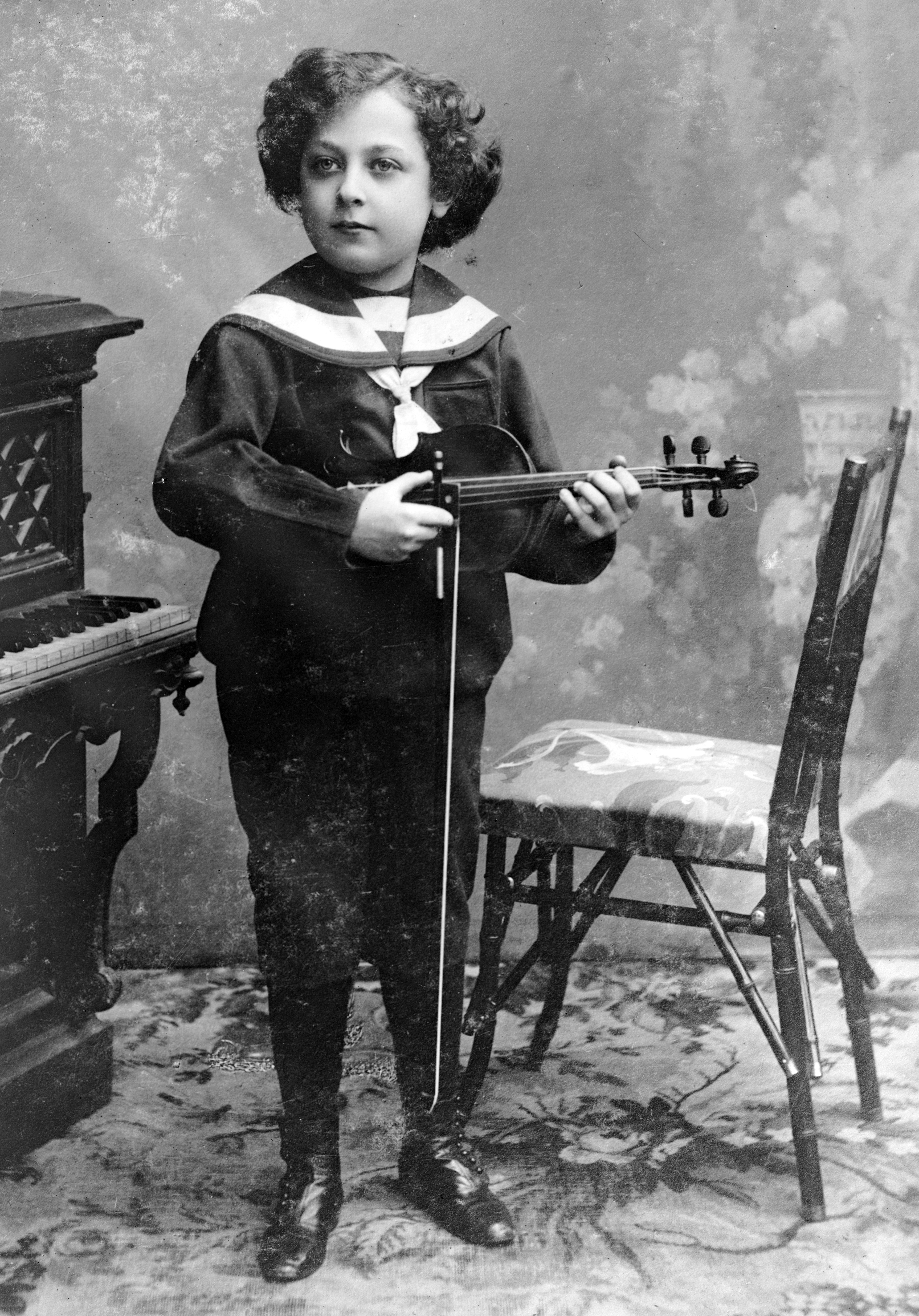 Lithuanian-born American violinist Jascha Heifetz (1901-1987) as a young boy